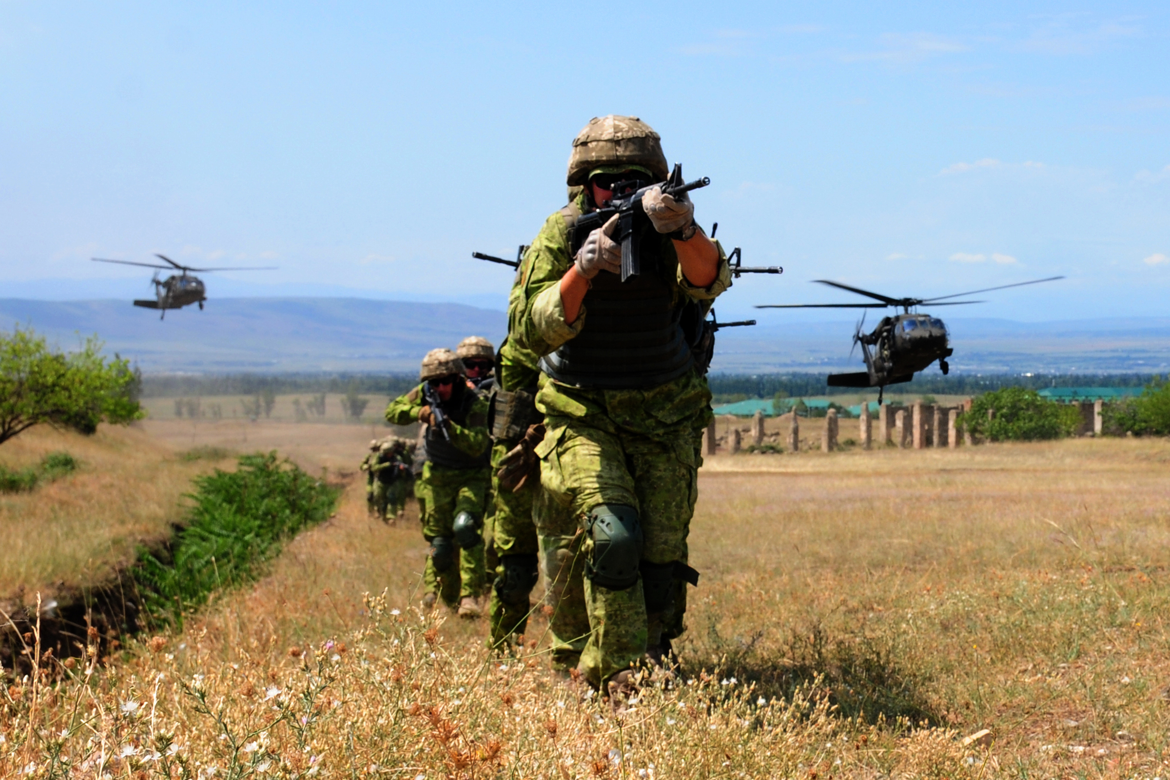 Ukrainian Infantry Marines advance after insertion by the Marietta based Alpha Company, 171st Aviation Regiment, U.S. Army National Guard UH-60 Black Hawk helicopters during an combined urban operation exercise with Georgian special forces, U.S. Soldiers and German forces as part of Noble Partner 18 at Vaziani Training Area, Georgia, Aug. 5, 2018. Noble Partner 2018 is a Georgian Armed Forces and U.S. Army Europe cooperatively-led event improving readiness and interoperability of Georgia, U.S. and participating nations.